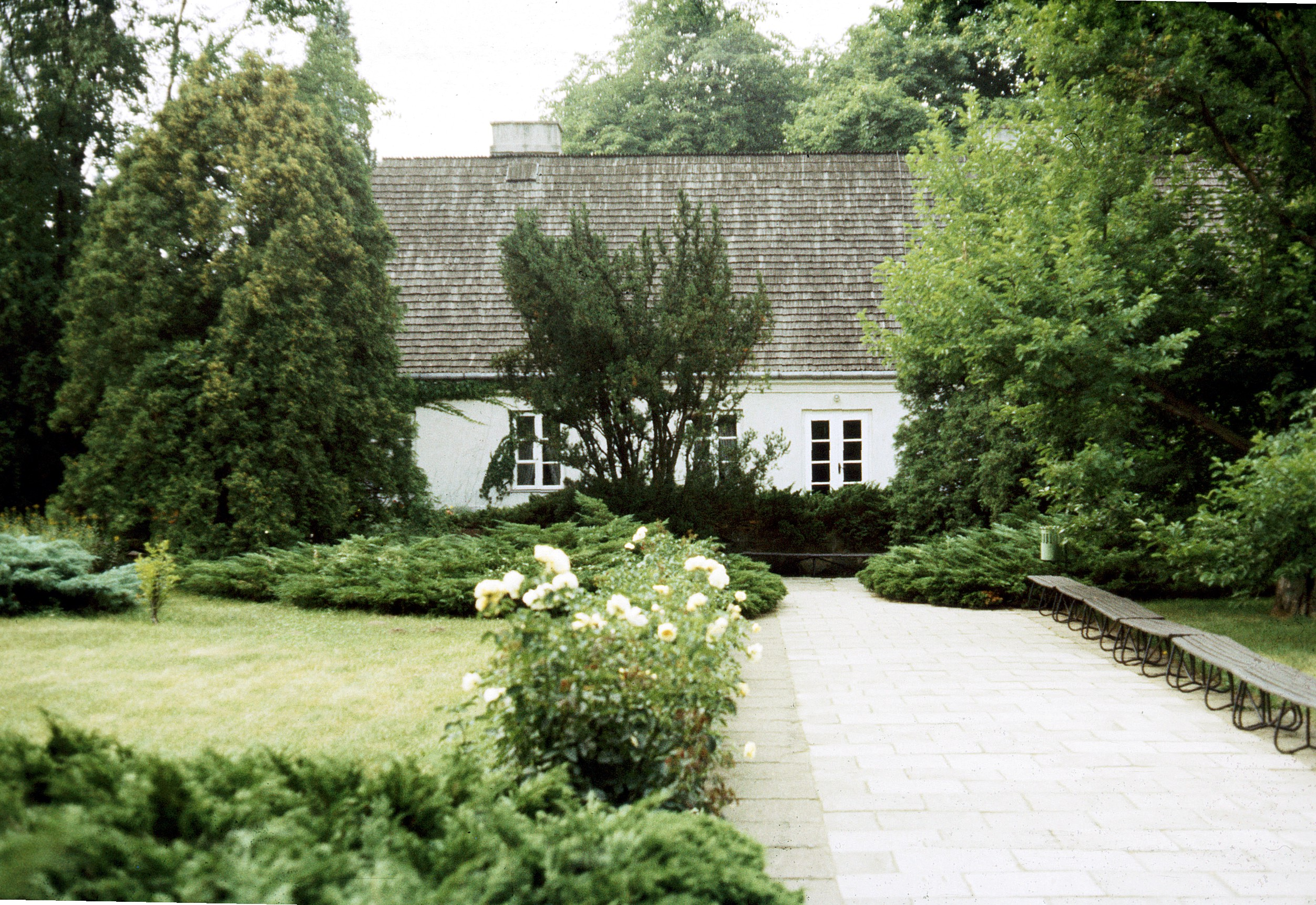 Żelazowa Wola, the manor house (birthplace of Chopin)